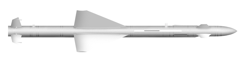 Vympel R-23 and R-24 (AA-7 Apex) air to air missile scheme